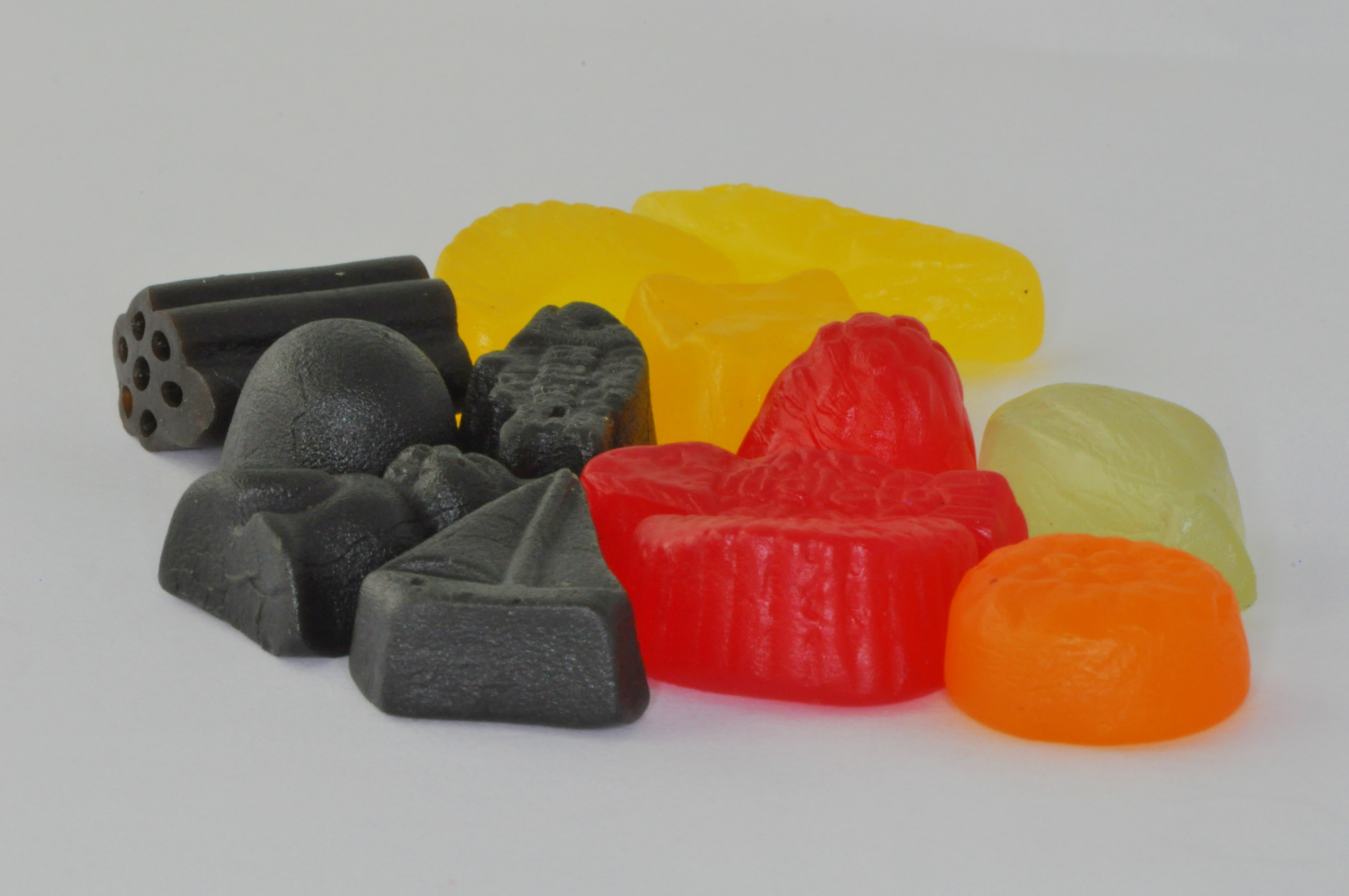 "Gott & blandat" (original), a mixed candy bag from Swedish Malaco.